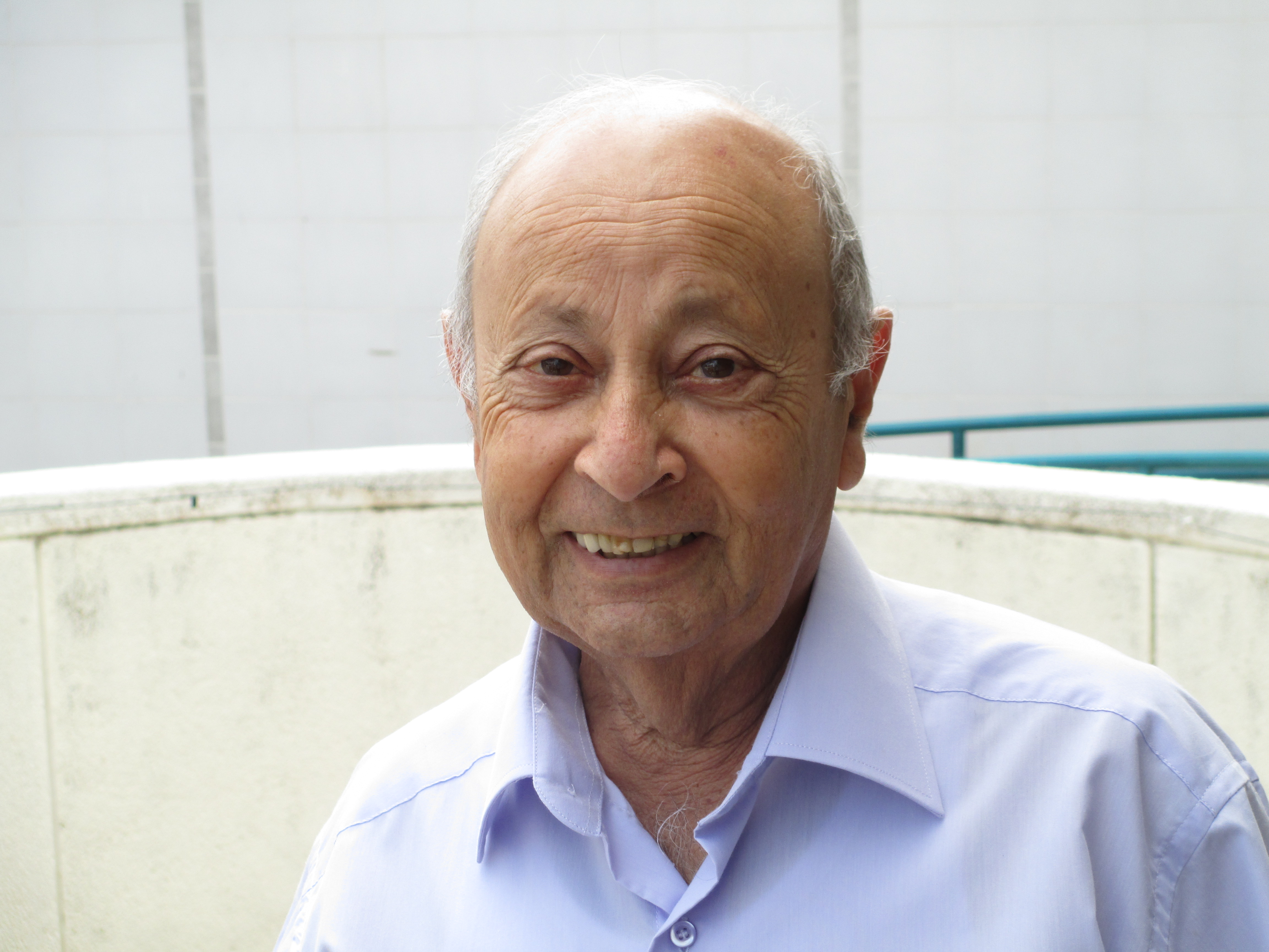 prof. shaul shaha פרופ' שאול שאשא המנהל לשעבר של בית החולים בנהריה